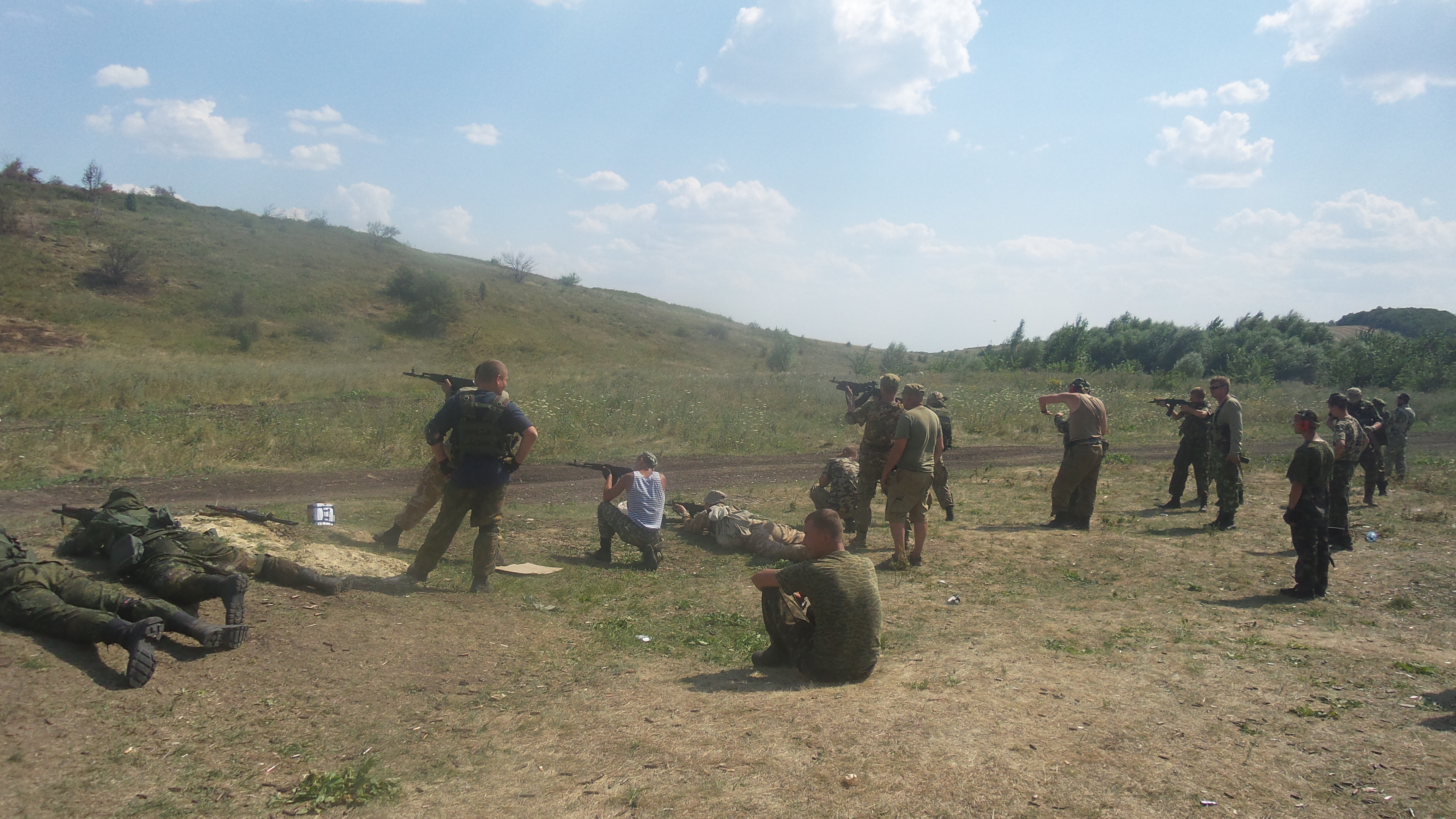 Aidar Battalion. Lugansk region, Ukraine.